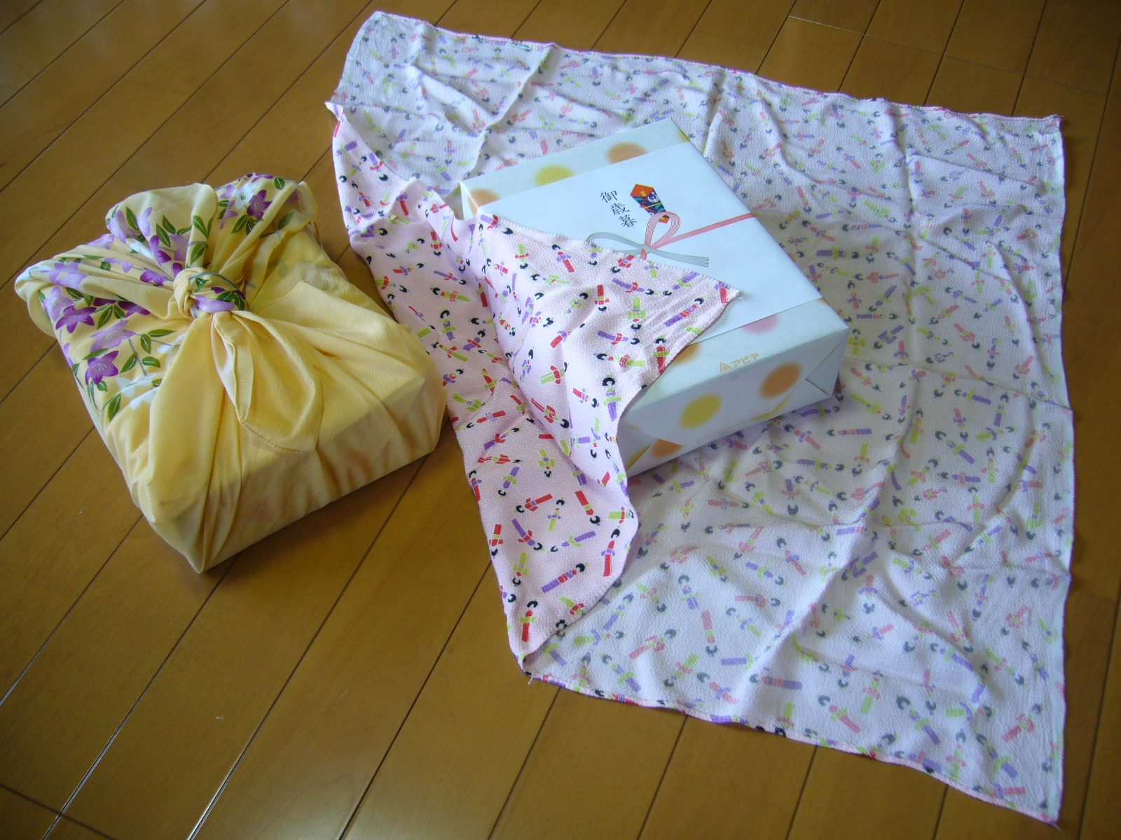 Traditional Japanese wrapping cloth,furoshiki,katori-city,japan